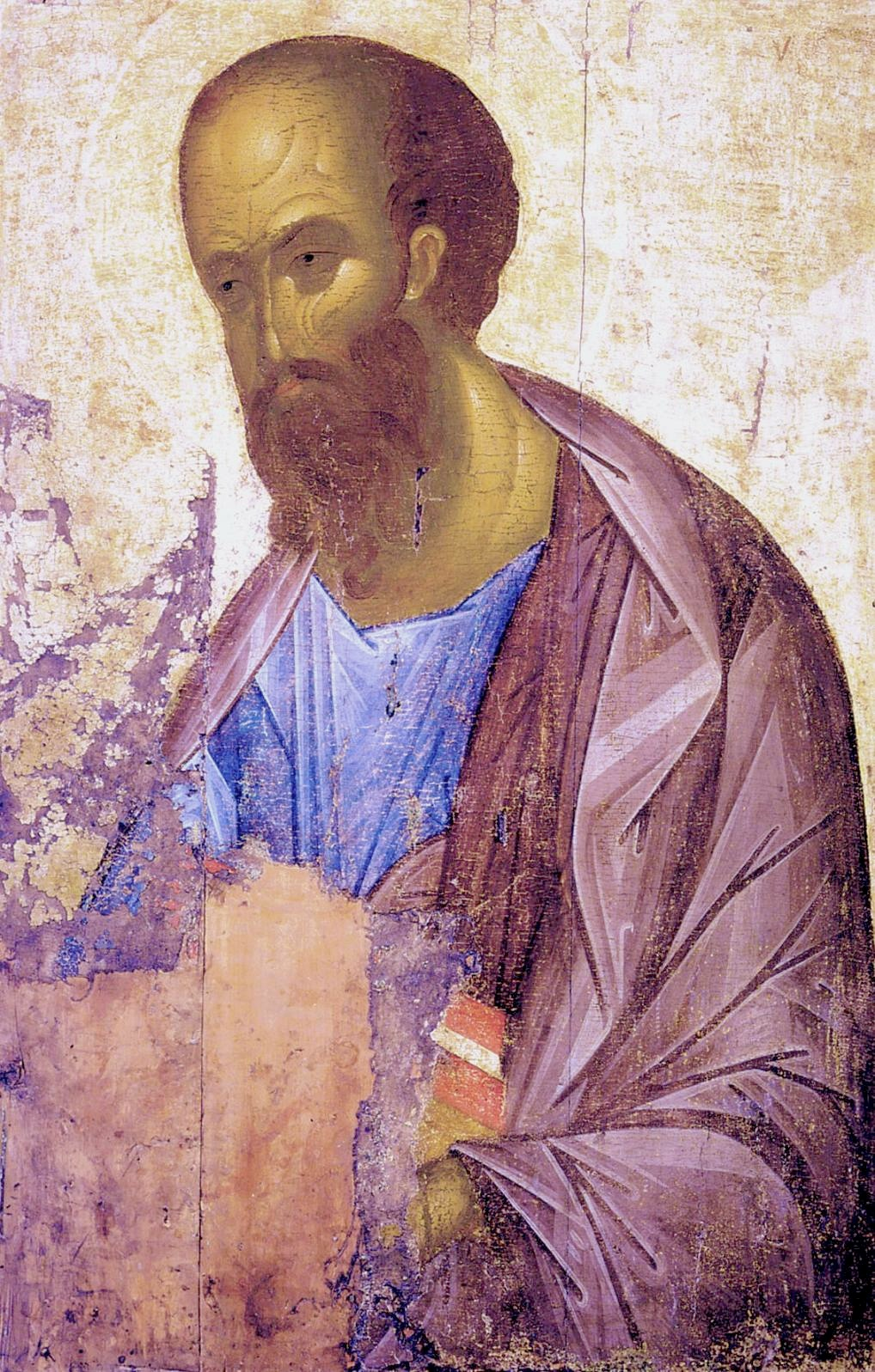 Icon of Saint Paul Apostle by Andrej Rublev, 1407